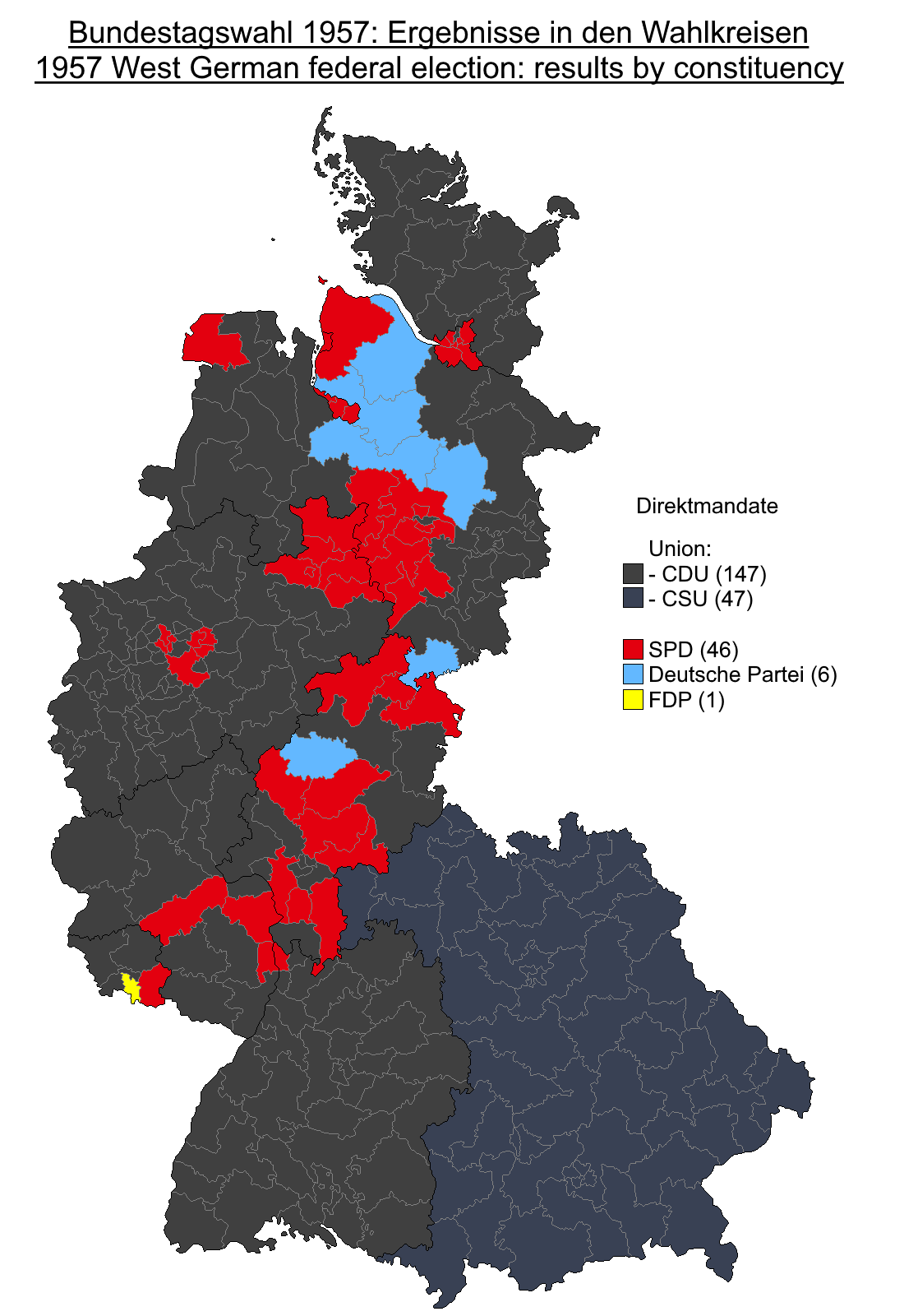 Results of the (West) German federal elections of 1957, showing direct seats won by party